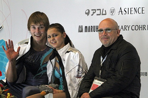 Anna Silaeva / Artur Minchuk with their coache Nikolai Velikov at the 2010-2011 Junior Grand Prix of Figure Skating Final.